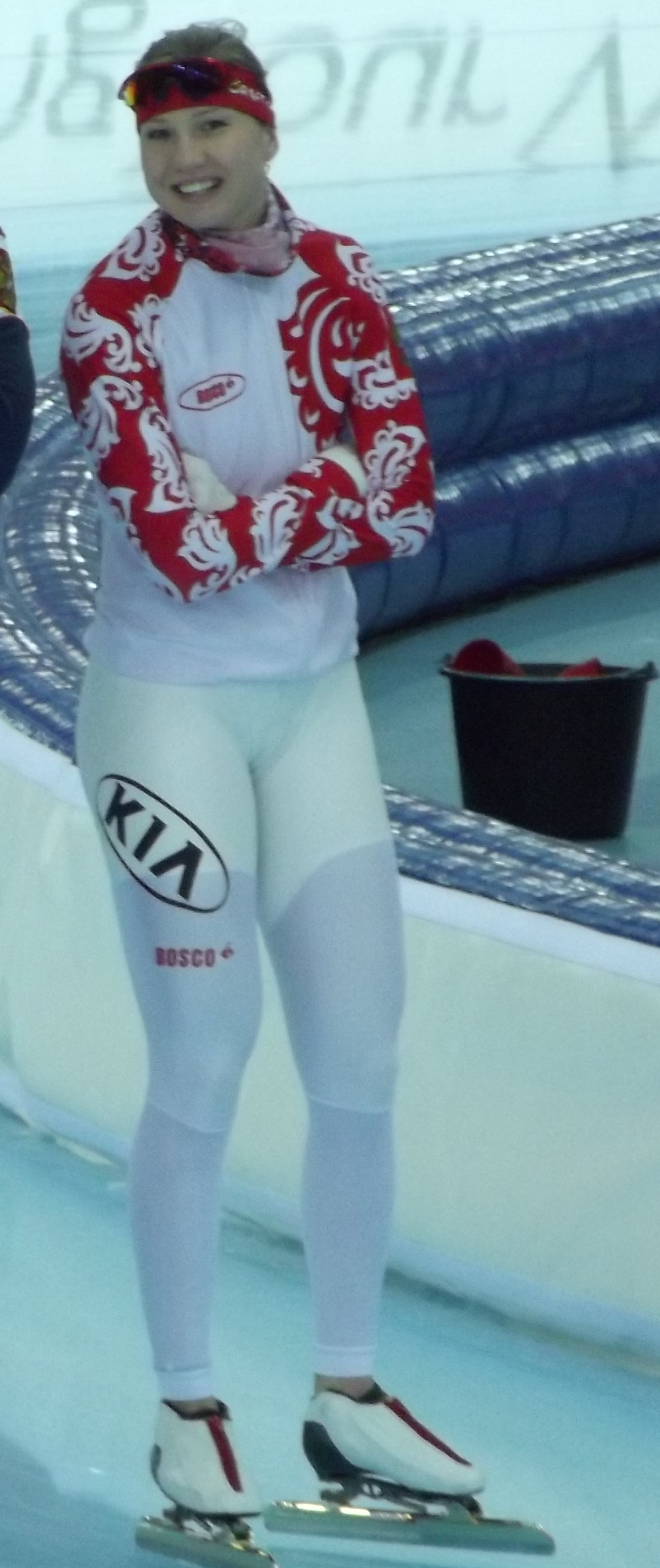 2013 World Single Distance Speed Skating Championships